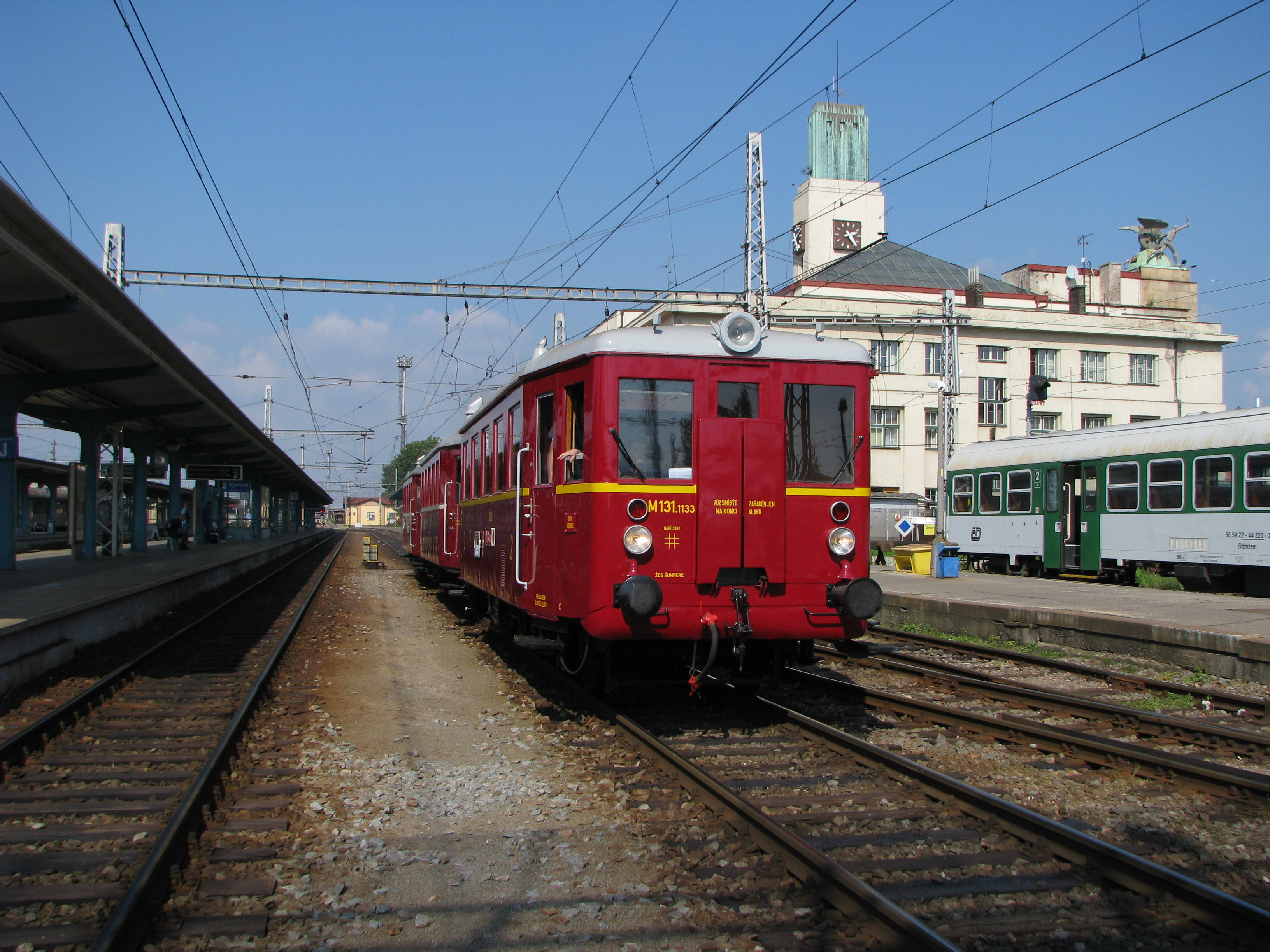 Railway station in Hradec Králové, ČSD Class M 131.1